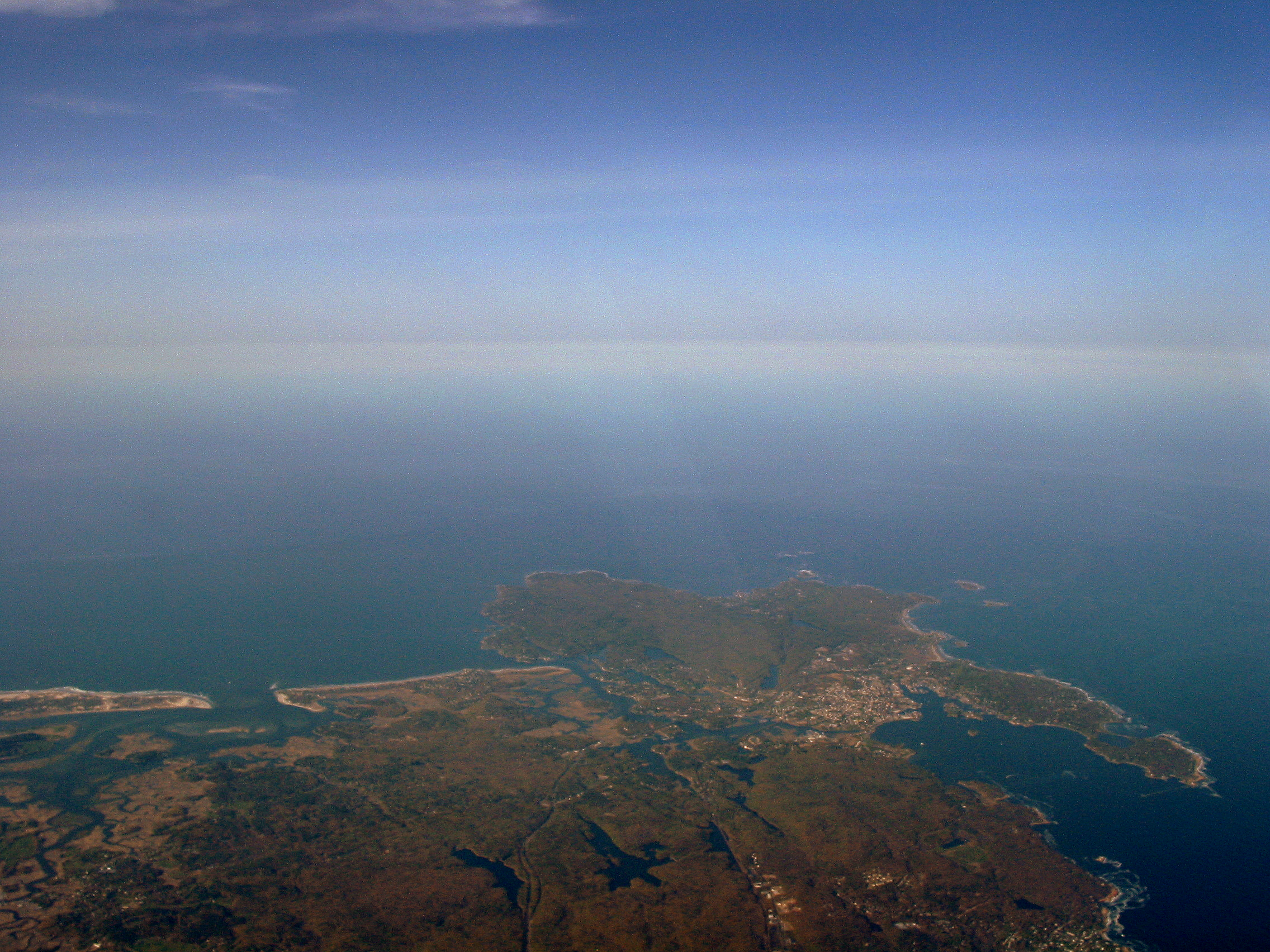 The fishing boat from "The Perfect Storm" left from here